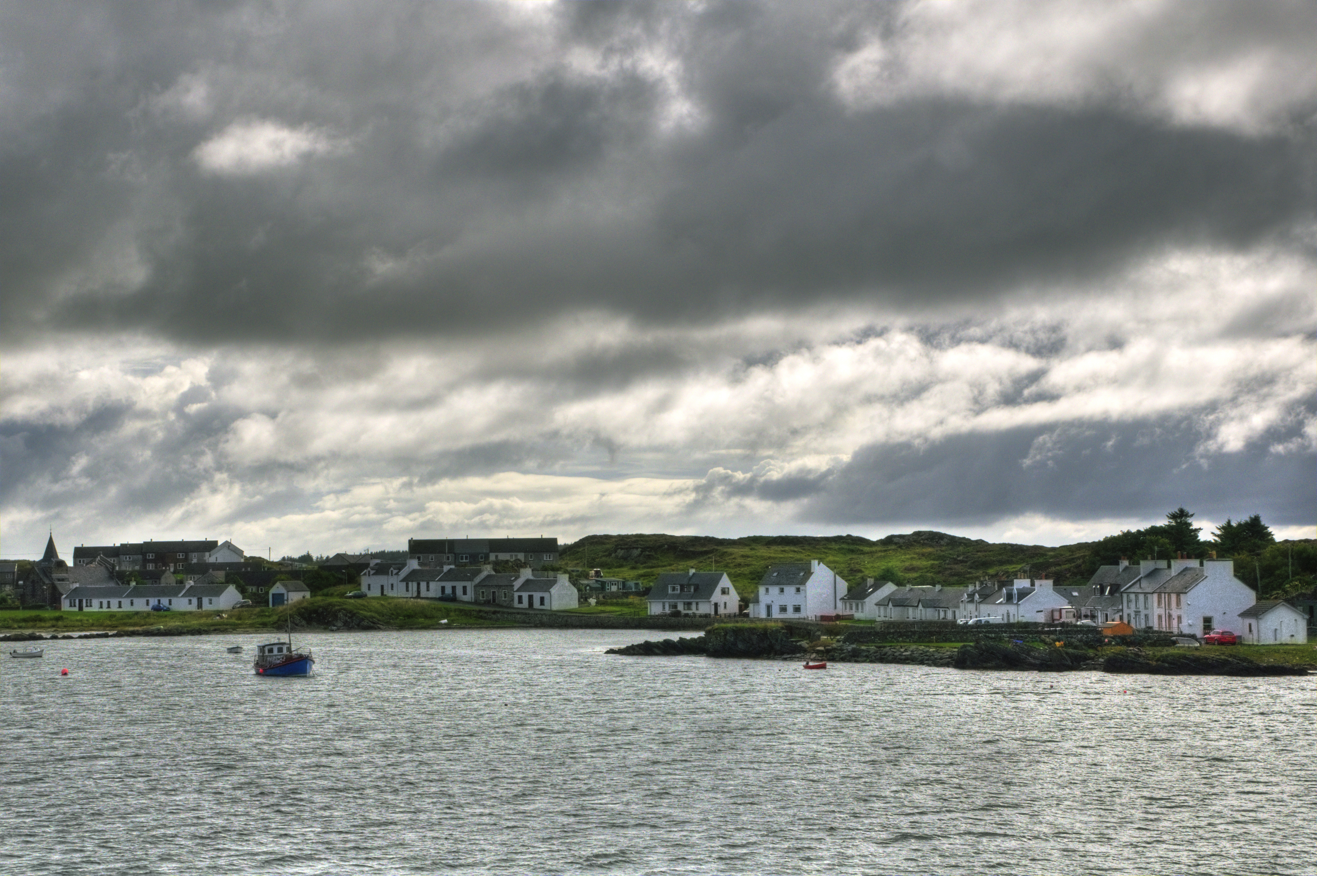 Heading towards Kennacraig, view of Port Ellen on a cloudy day